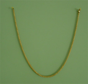 Chain